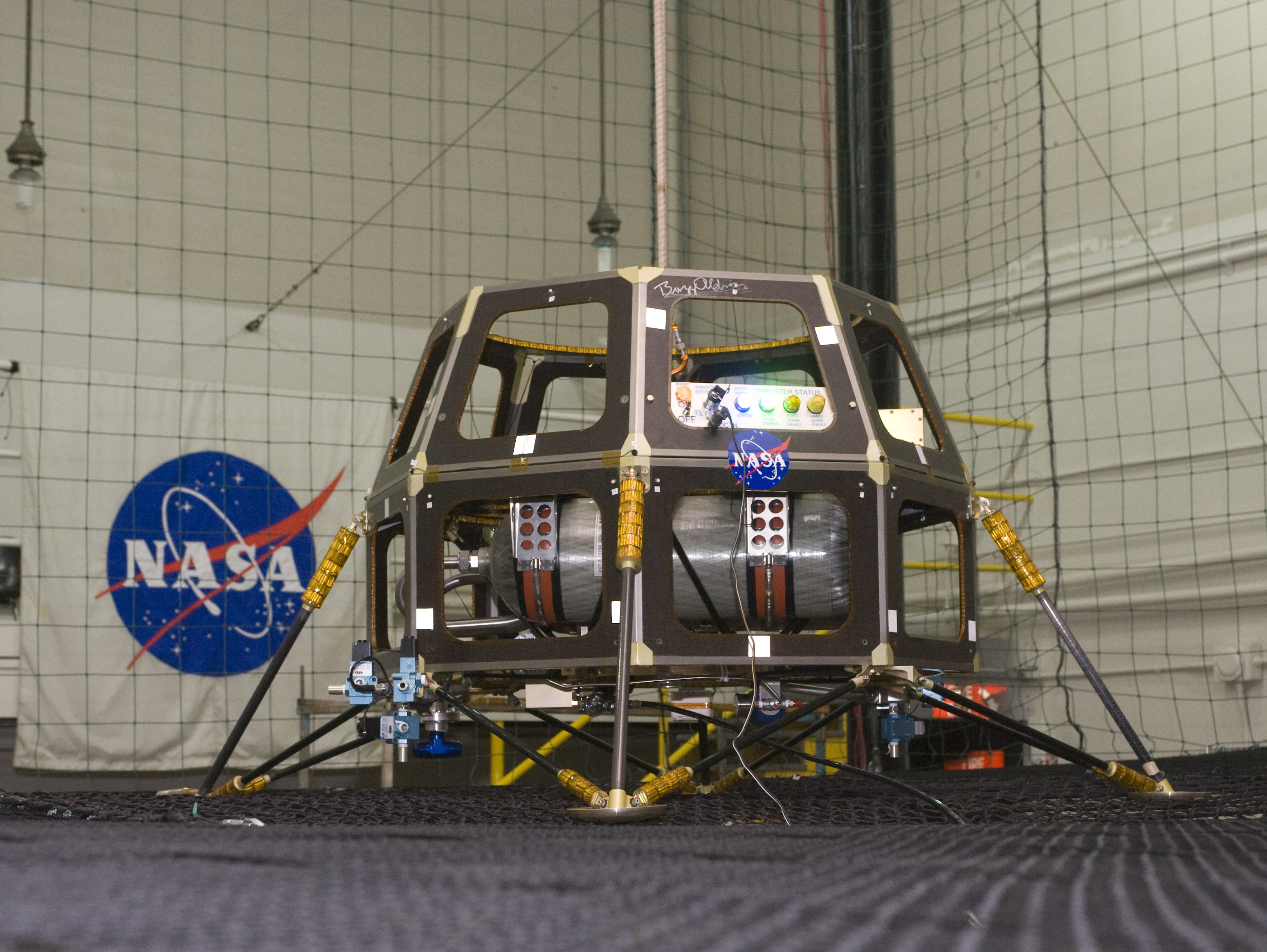 A Modular Common Spacecraft Bus being used as a hover test vehicle at Ames Research Center Building 45 in 2008. Engineers will install additional spacecraft electronics and science payloads, converting this vehicle into the Lunar Atmosphere and Dust Environment Explorer, or LADEE, scheduled for launch in mid-2013.